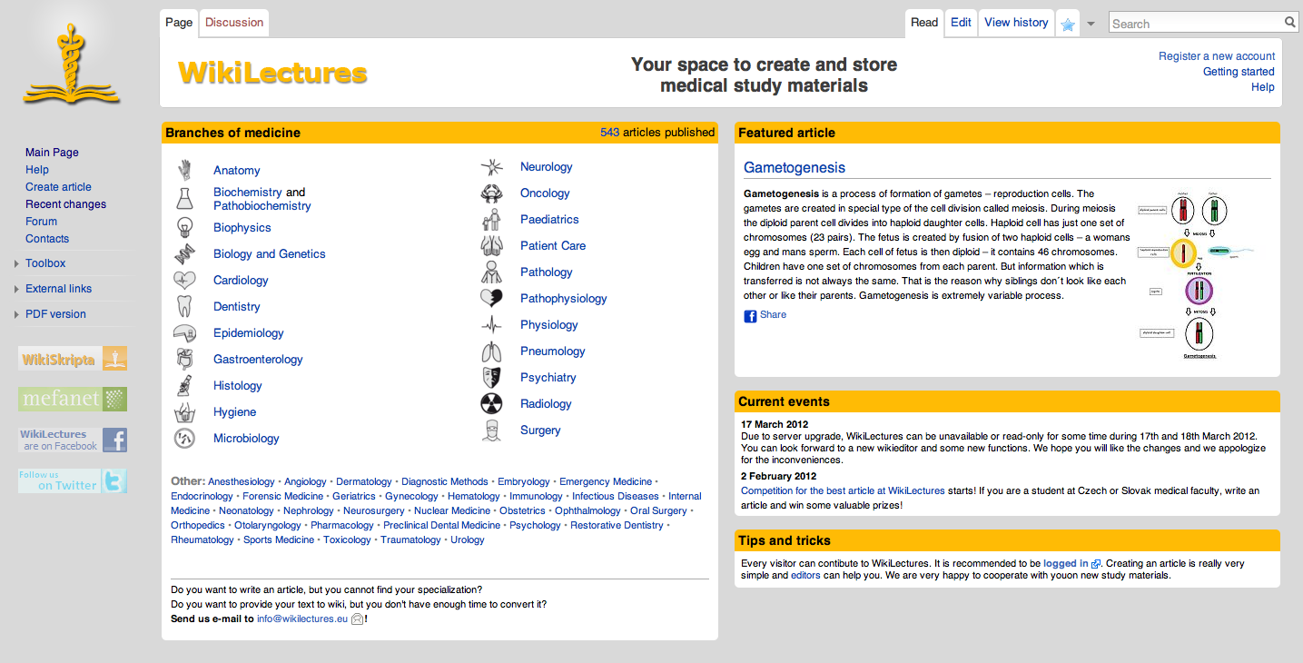 Study materials for medical students